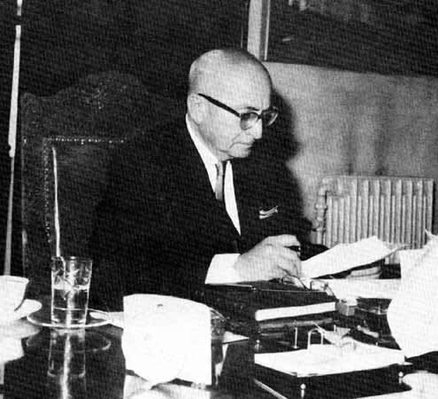 Prime Minister Khalid al-Azm, who held office in 1949-1950, and was famed for boycotting Lebanese goods.